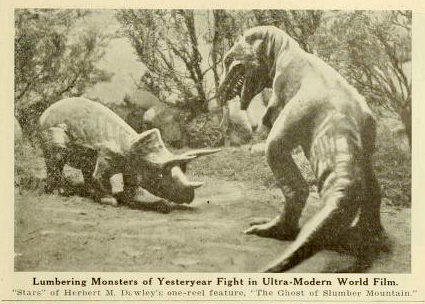 Still for The Ghost of Slumber Mountain (1918), from article in Moving Picture World, May 1919.